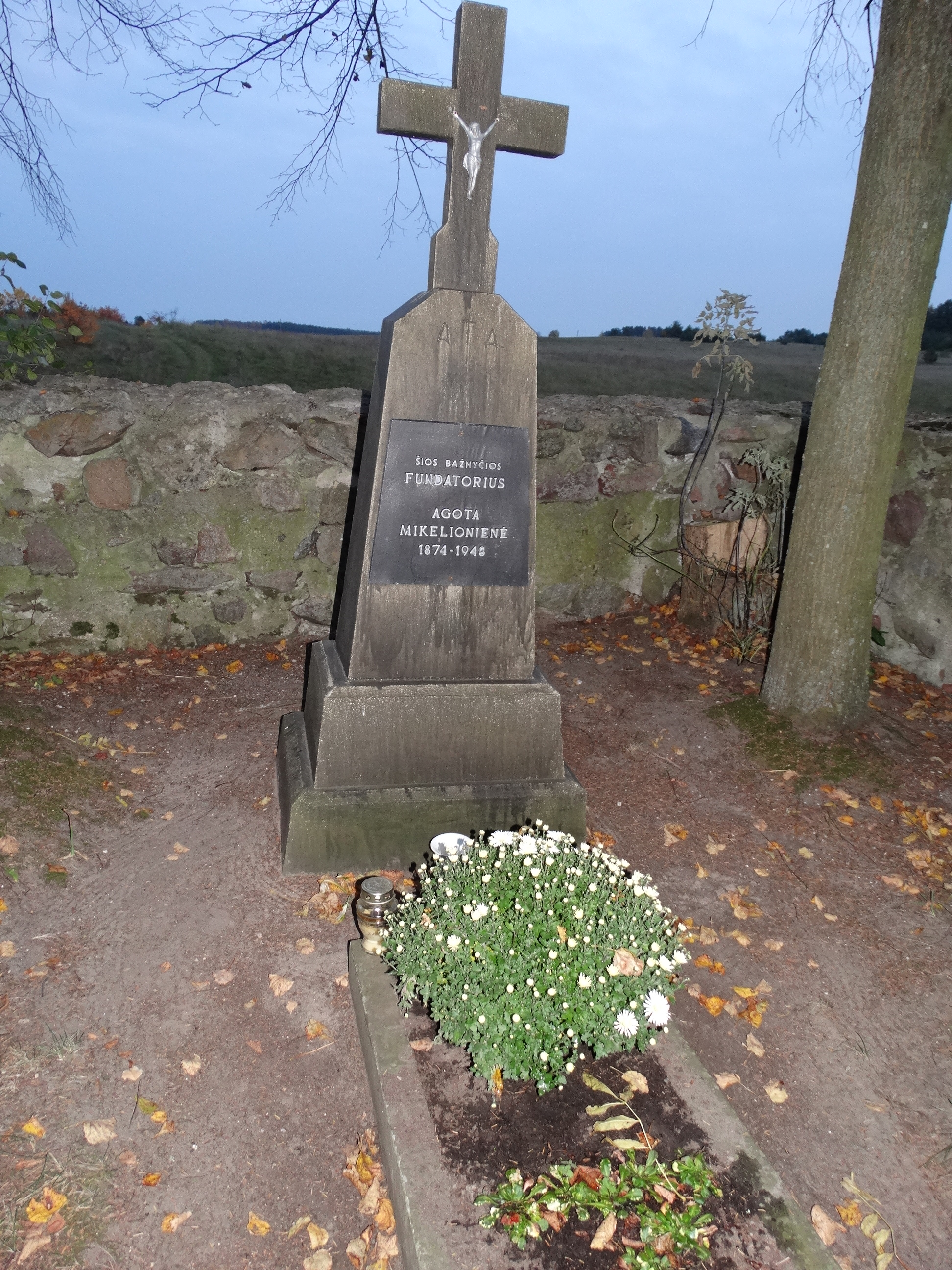 Churchyard tomb, Paveisininkai, Lazdijai district, Lithuania